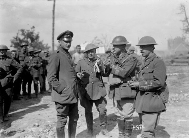 A German medical officer, Lt Schnelling of the 14th Bavarian Regiment, detailed to attend the German wounded and who came to a New Zealand Ambulance near the front line. Schnelling, left, is pictured with Colonel J. Hardie Neil and Major H M Goldstein. Photograph taken near Bapaume, France, 27 August 1918 by Henry Armytage Sanders.